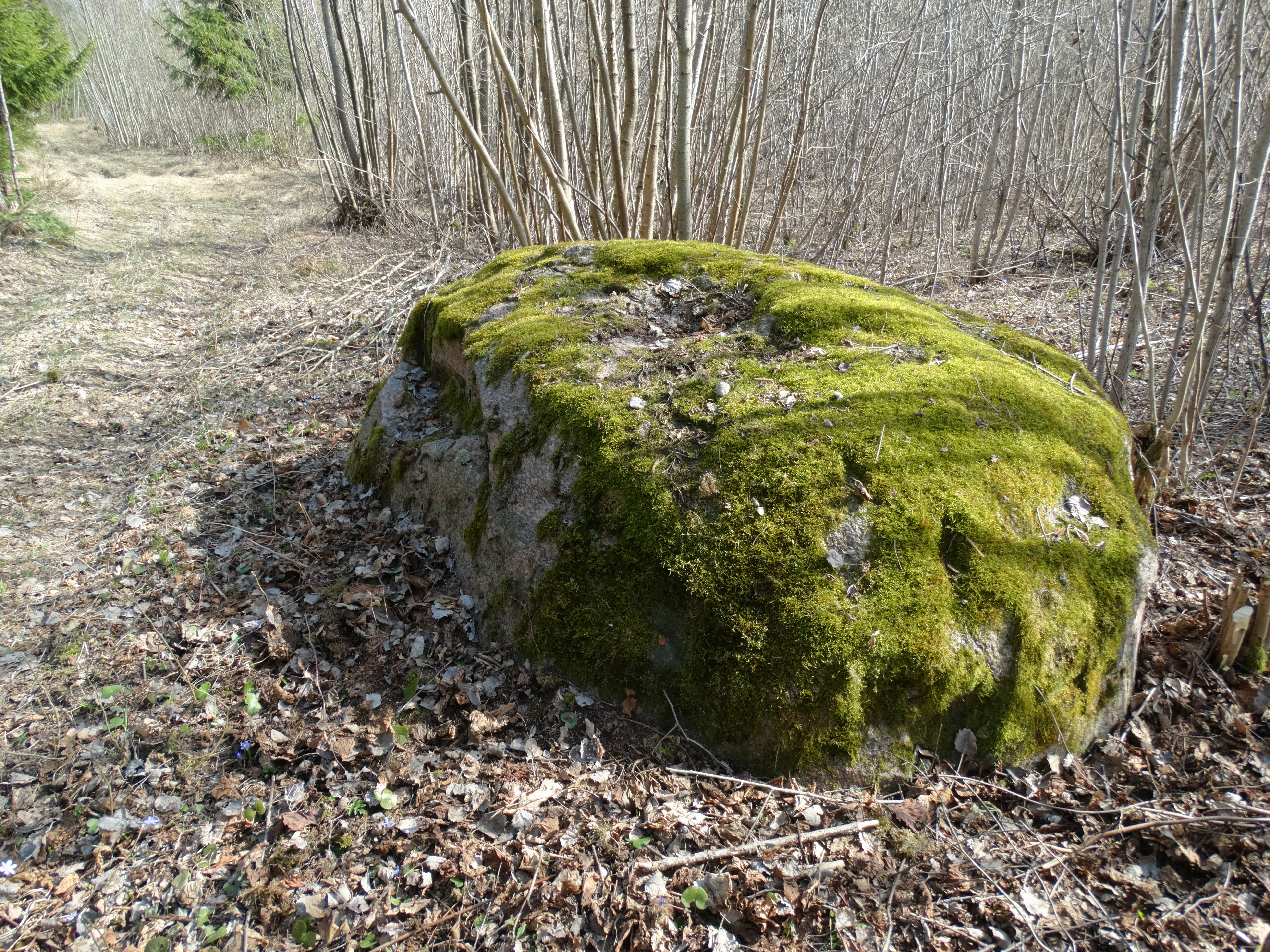 Stone Didysis in Barklainiai, Panevėžys District, Lithuania